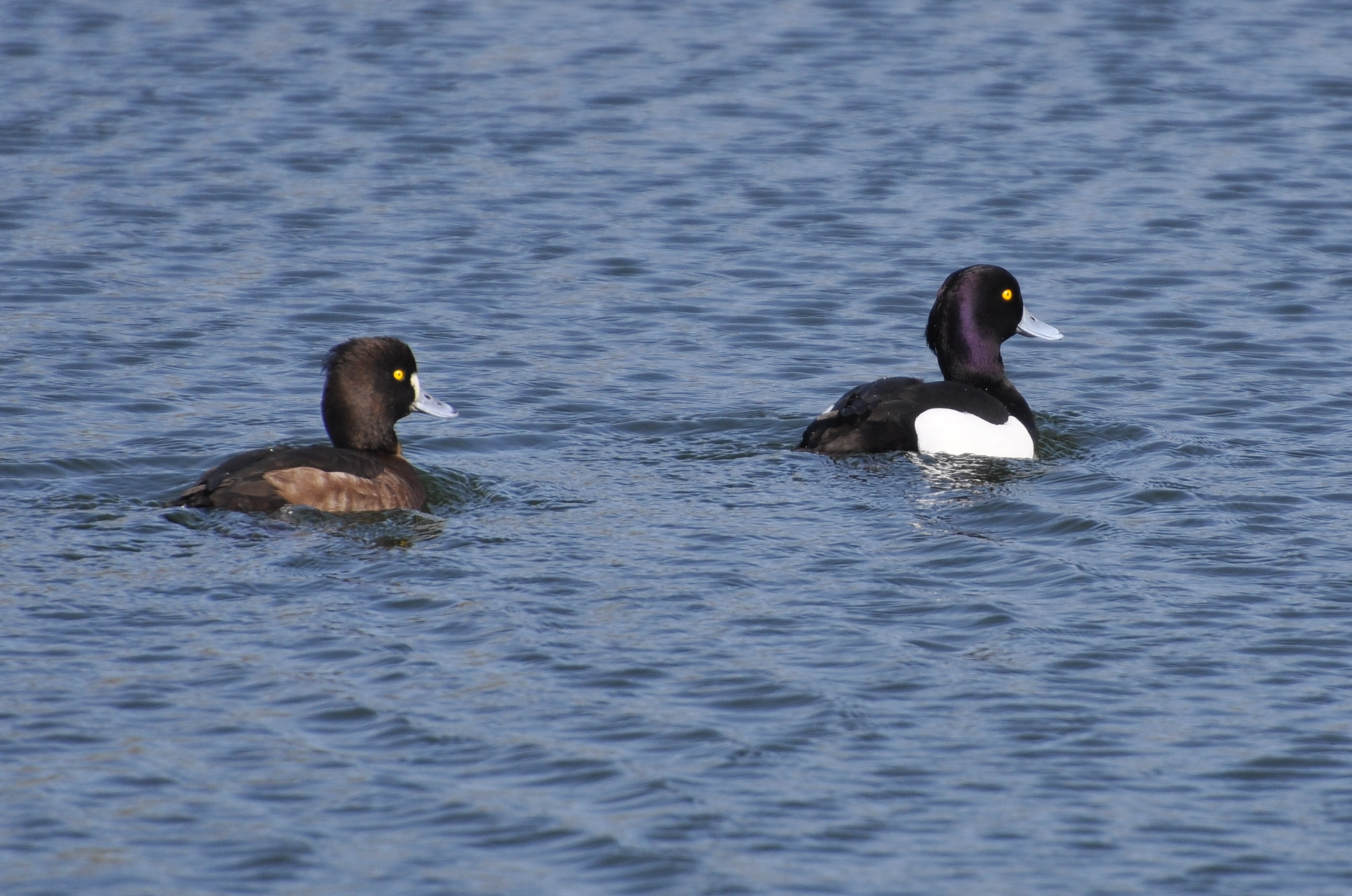 Tufted Ducks male and female in Kirchwerder, Hamburg.